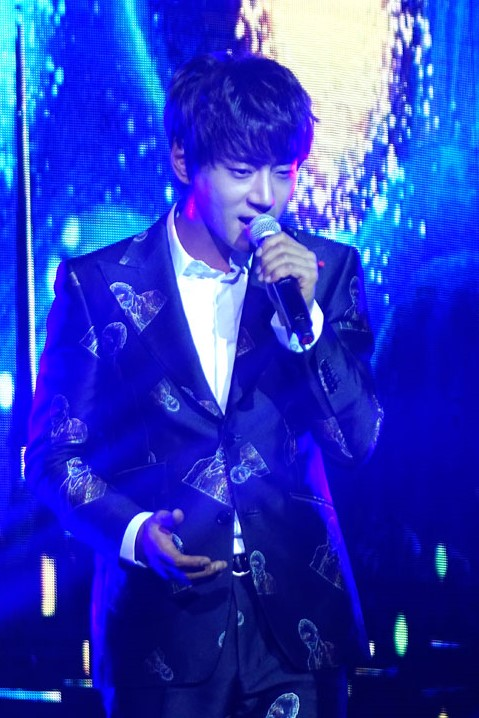 Hwang ChiYeul is Republic of Korea singer Directly photographed in China Shenzhen